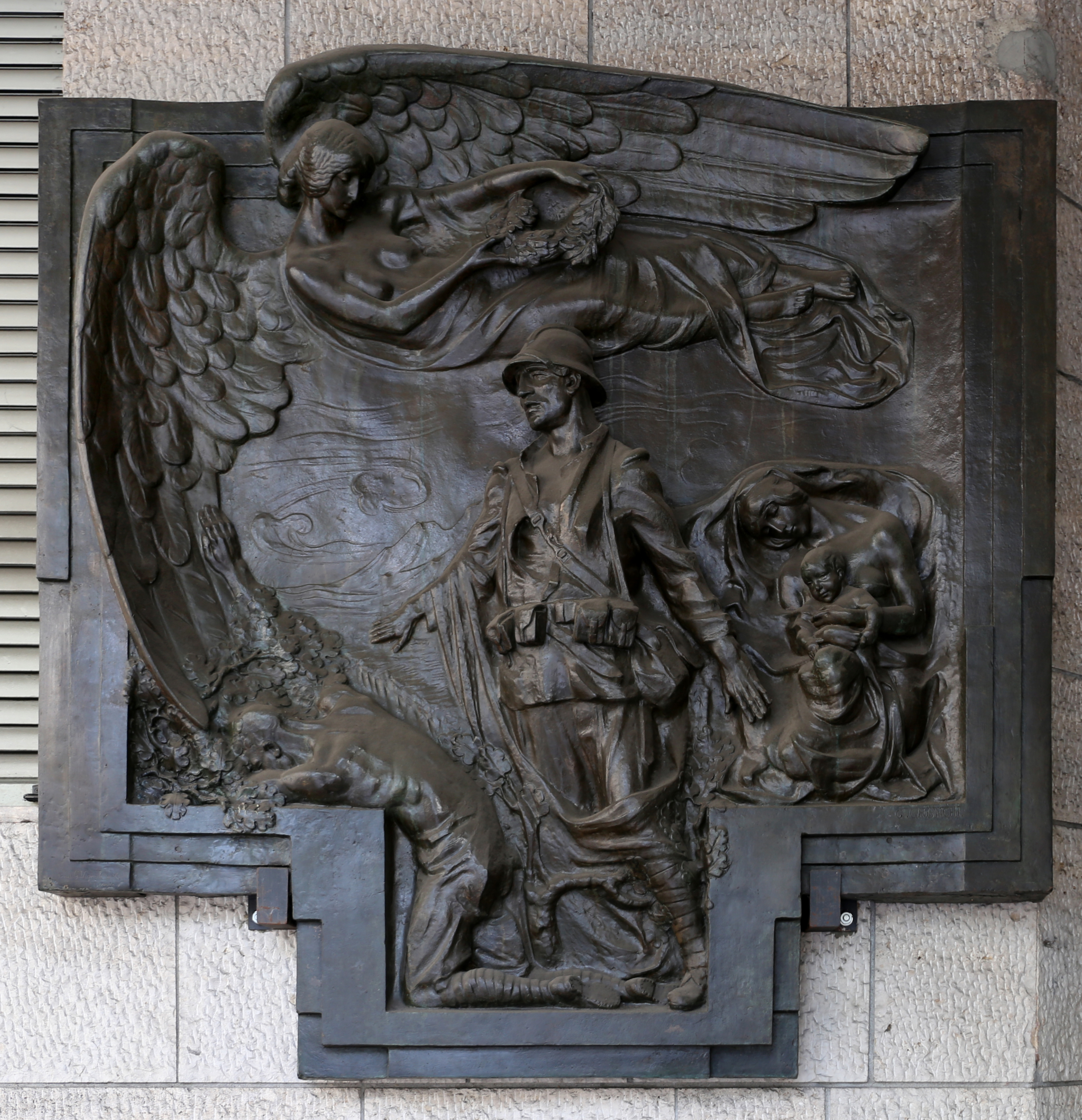 Sede ENEL (Florence)